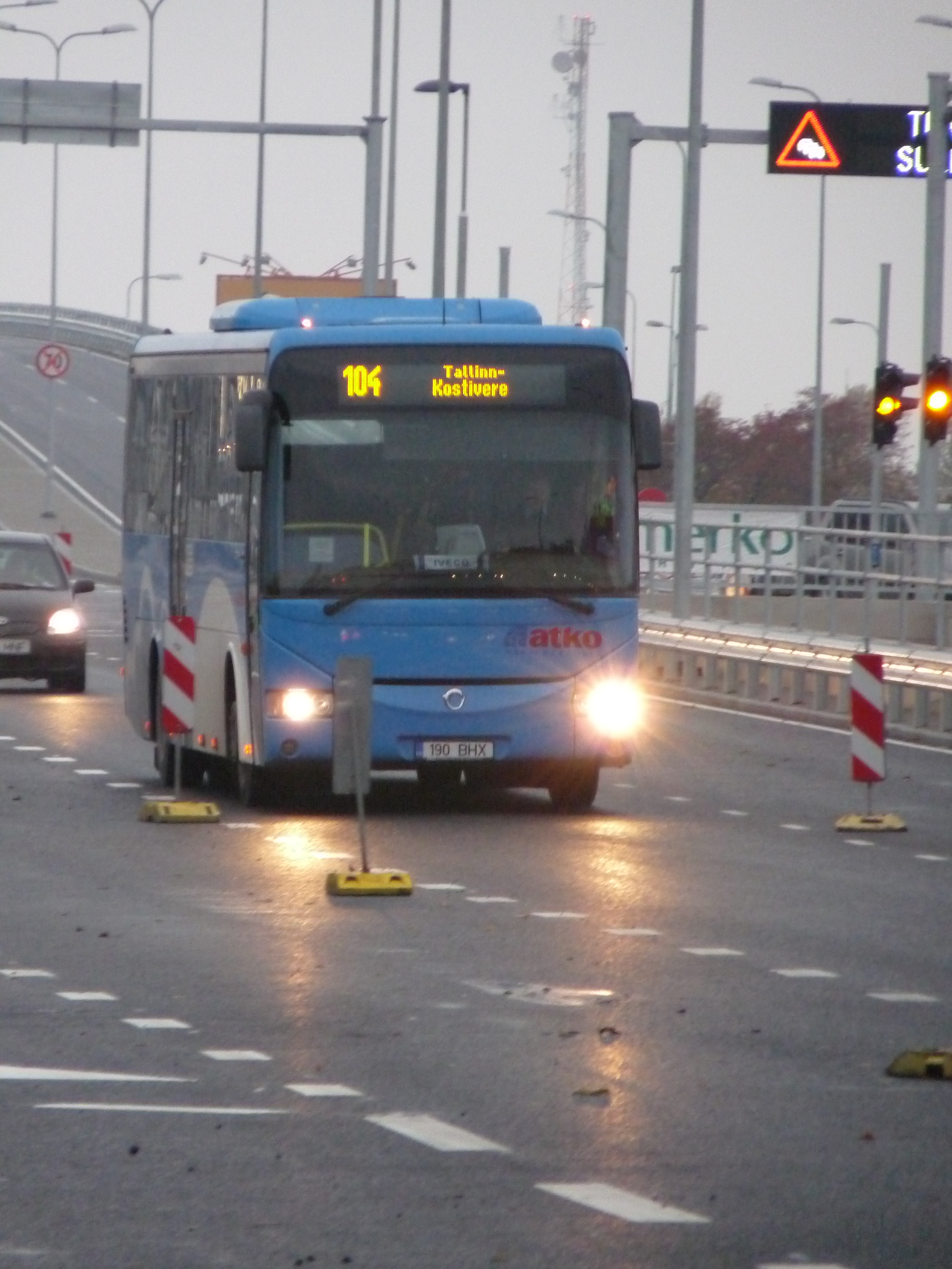 ATKO bus №104 going from Tallinn to Kostivere village